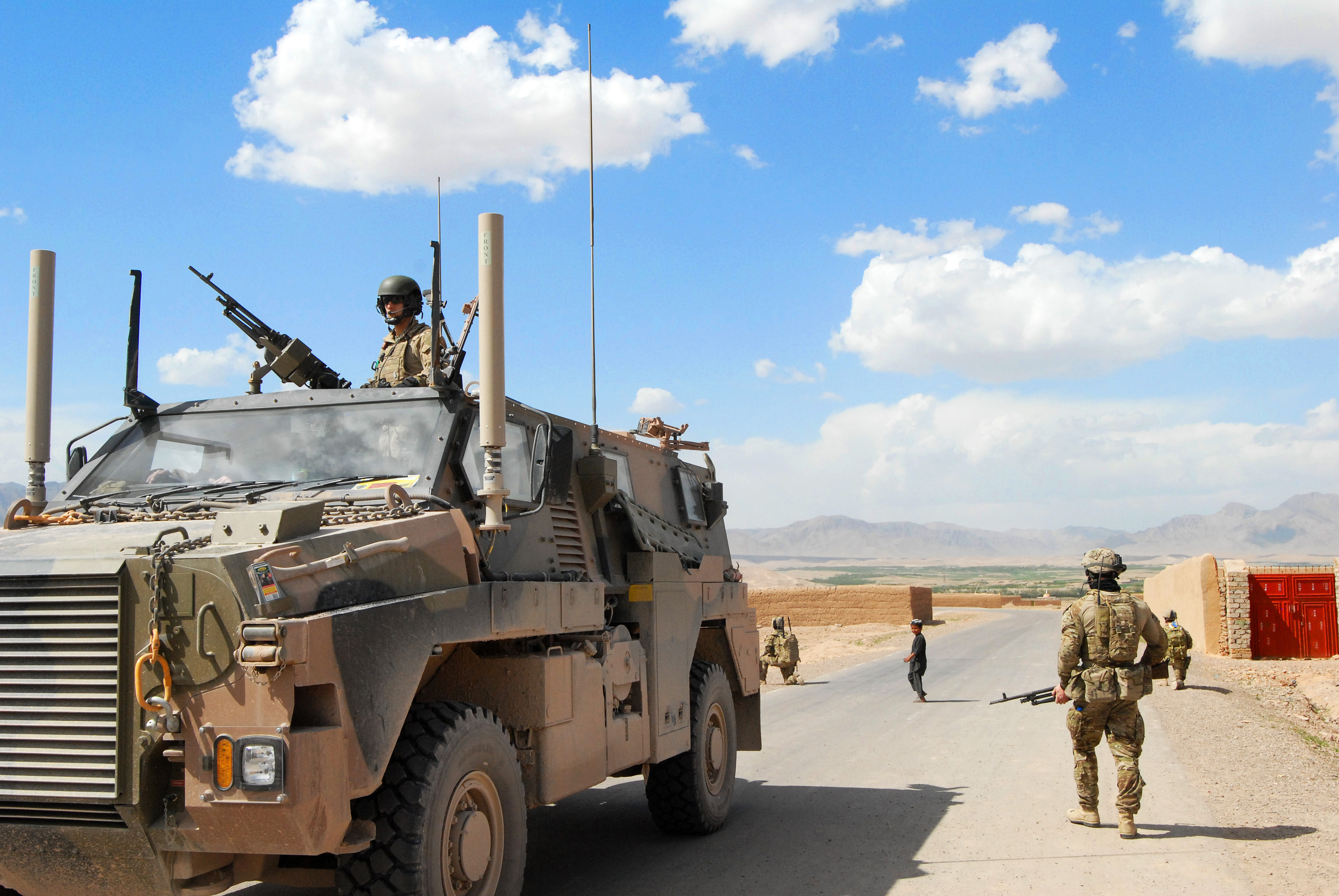 Royal Australian Air Force security forces conduct a patrol through Tarin Kowt in Uruzgan province, Afghanistan, March 31, 2013. The ground defense patrol was conducted in order to provide depth in defense and gain awareness about the local population near the base.